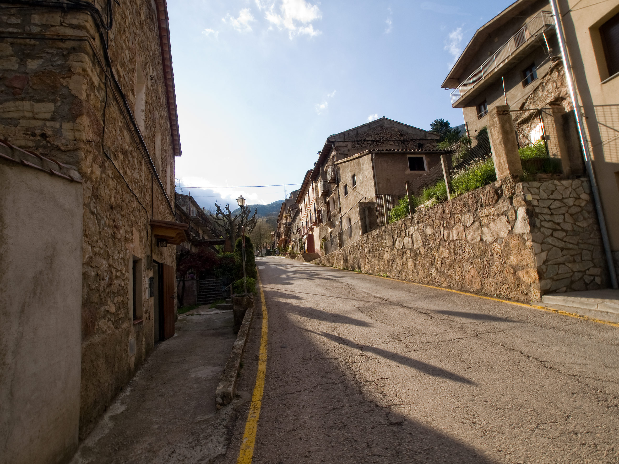 Avenue of Ogassa (Catalunya, Spain)